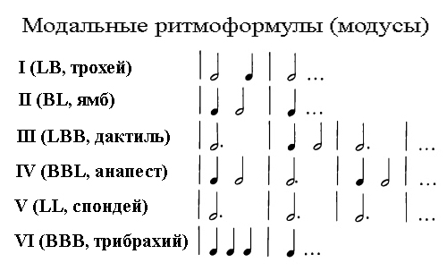 Rhythmical modes (in music of the Ars antiqua)